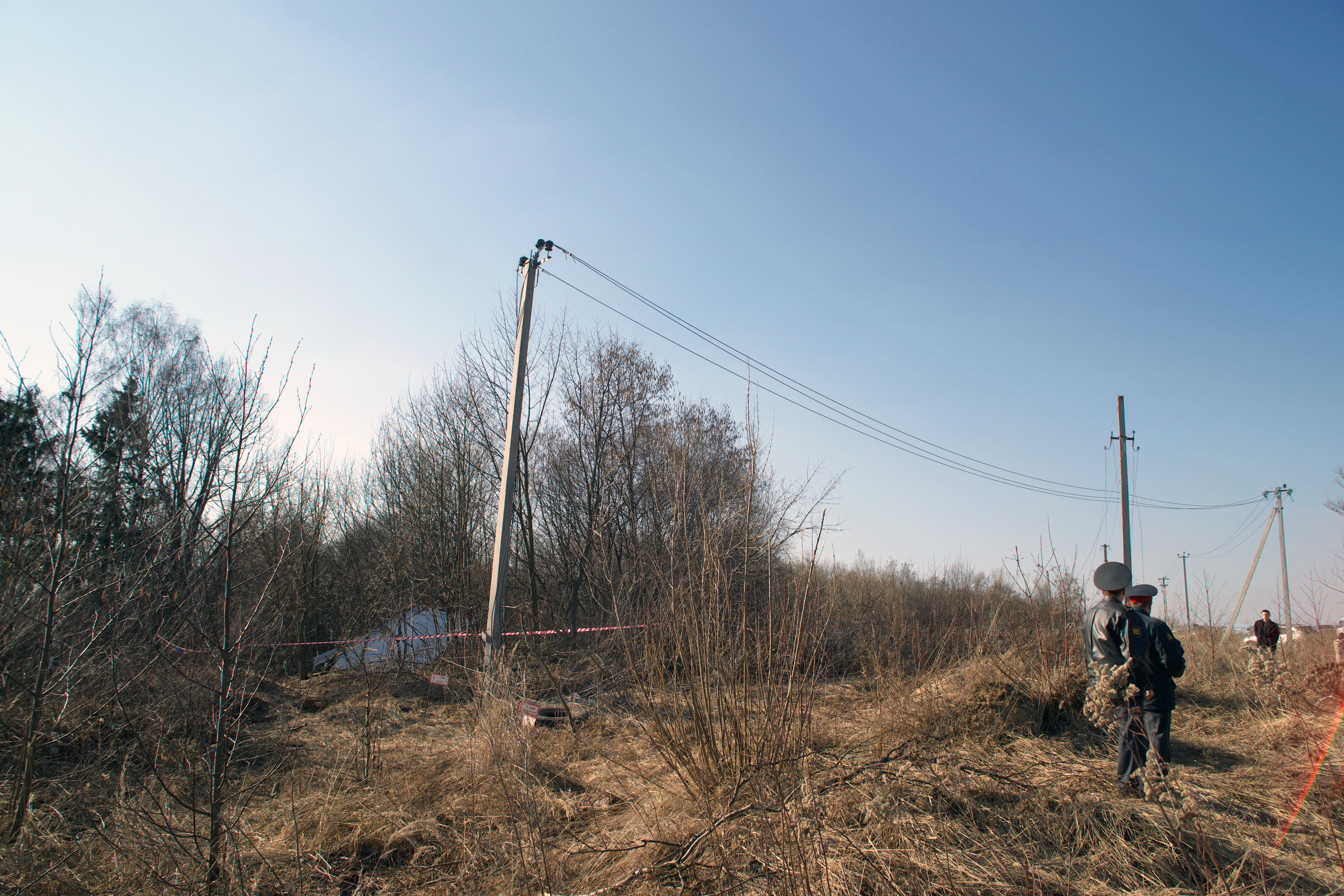 Fragments of TU-154 the Polish president at the crash site in Smolensk. Dangling power line